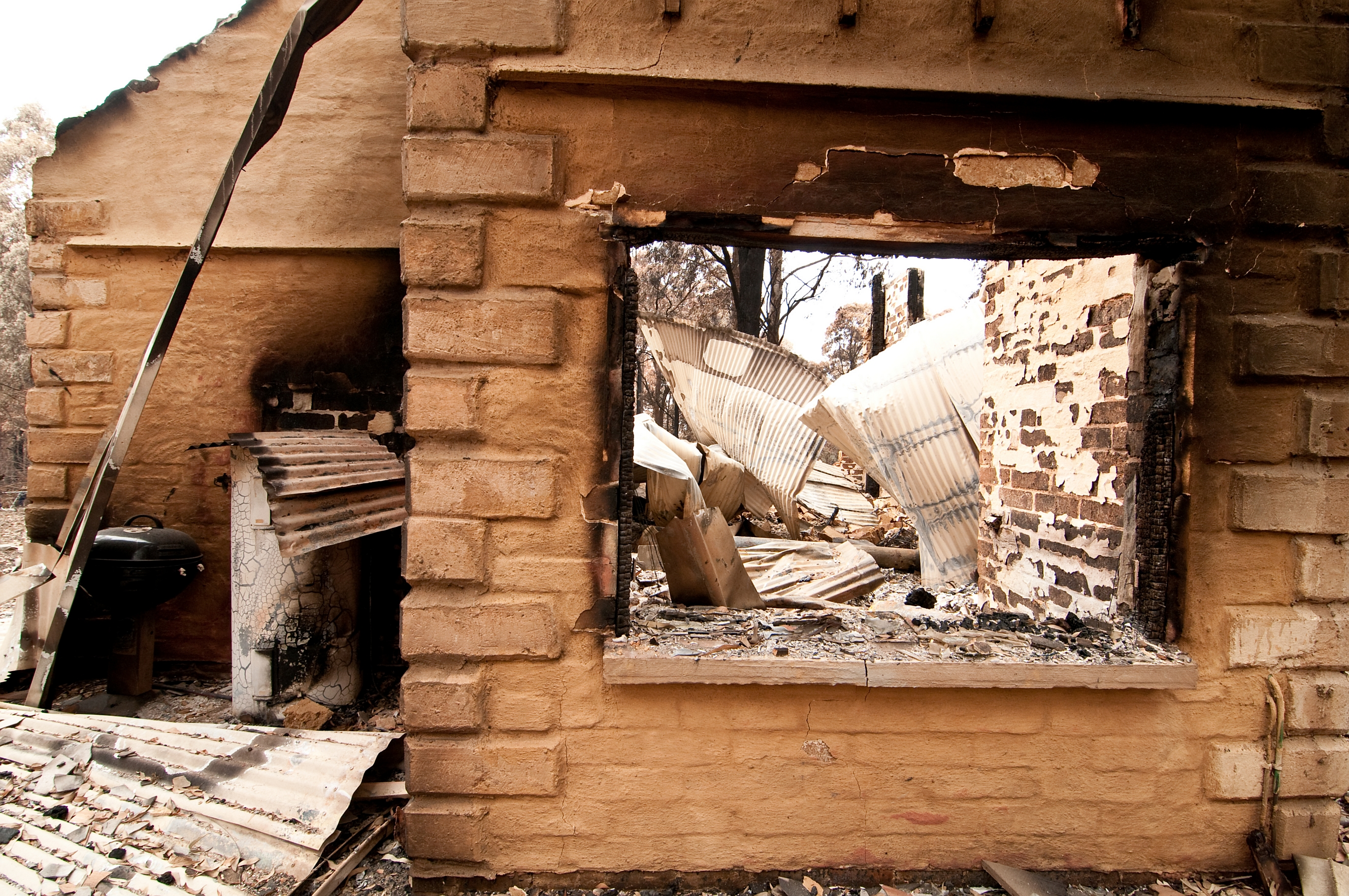 CSIRO is a participating agency in the Bushfire Cooperative Research Centre which has been looking at the key issues in the February 2009 bushfires. The CRC's Bushfire Research Task Force includes researchers from various state fire agencies and research organisations with expertise in building analysis, human behaviour, community education, bushfire behaviour, fire weather, and fire investigation. The purpose of the research is to provide fire and land management agencies with independent analyses of the factors surrounding the Victorian fires. CSIRO researchers from the Bushfire Dynamics and Applications Group, the Bushfire Urban Design project and the Remote Sensing team, will be involved with two areas of research: strategic fire behaviour - how the fires moved across different landscapes and different vegetation and under variable weather conditionsbuilding (infrastructure) and planning issues - patterns of loss and patterns of survival of build